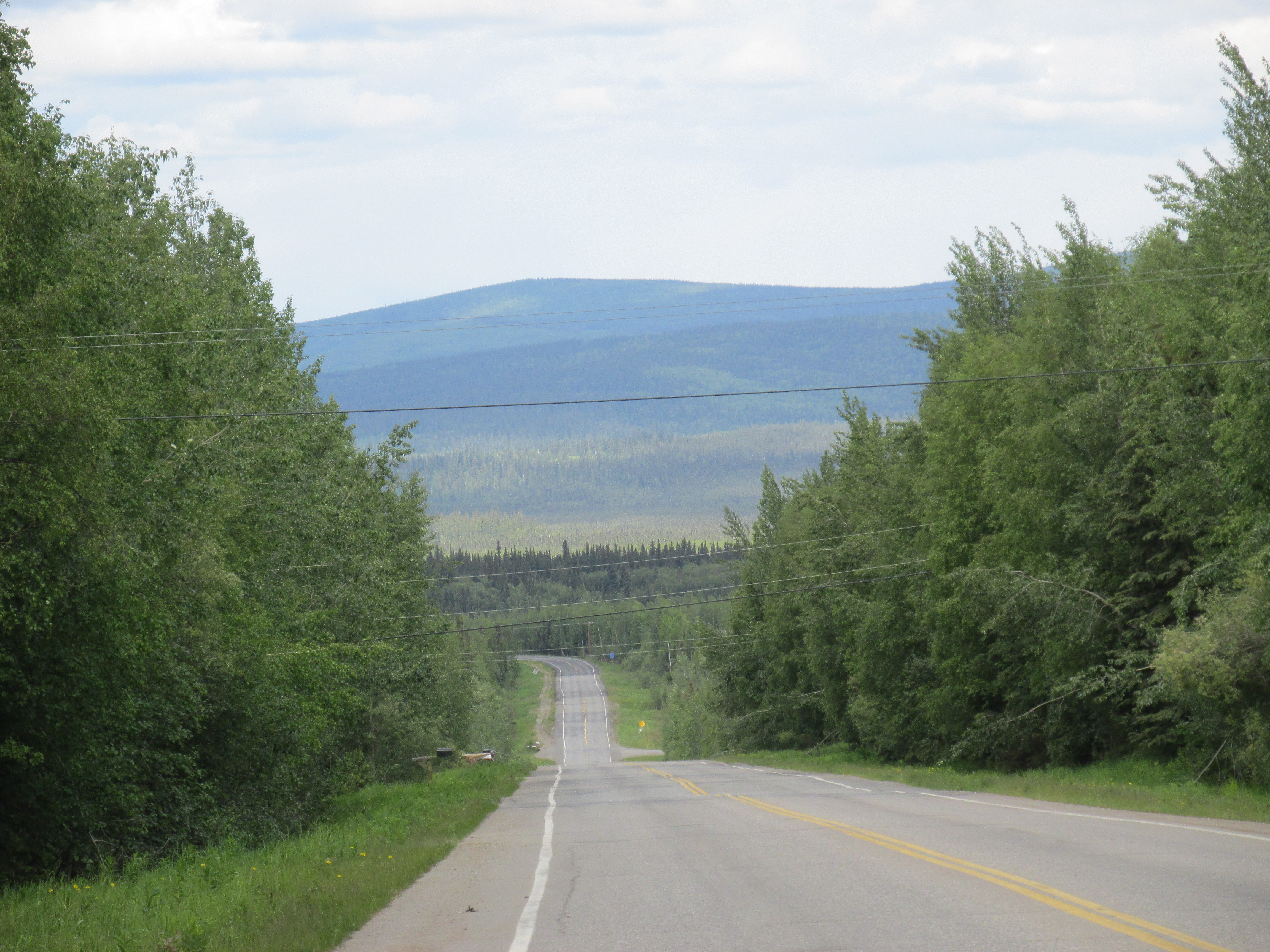 Chena Hot Springs Road, westbound at mile 14, in the Two Rivers CDP of the Fairbanks North Star Borough, Alaska. Looking down a long hill with a small mountain in the distance.